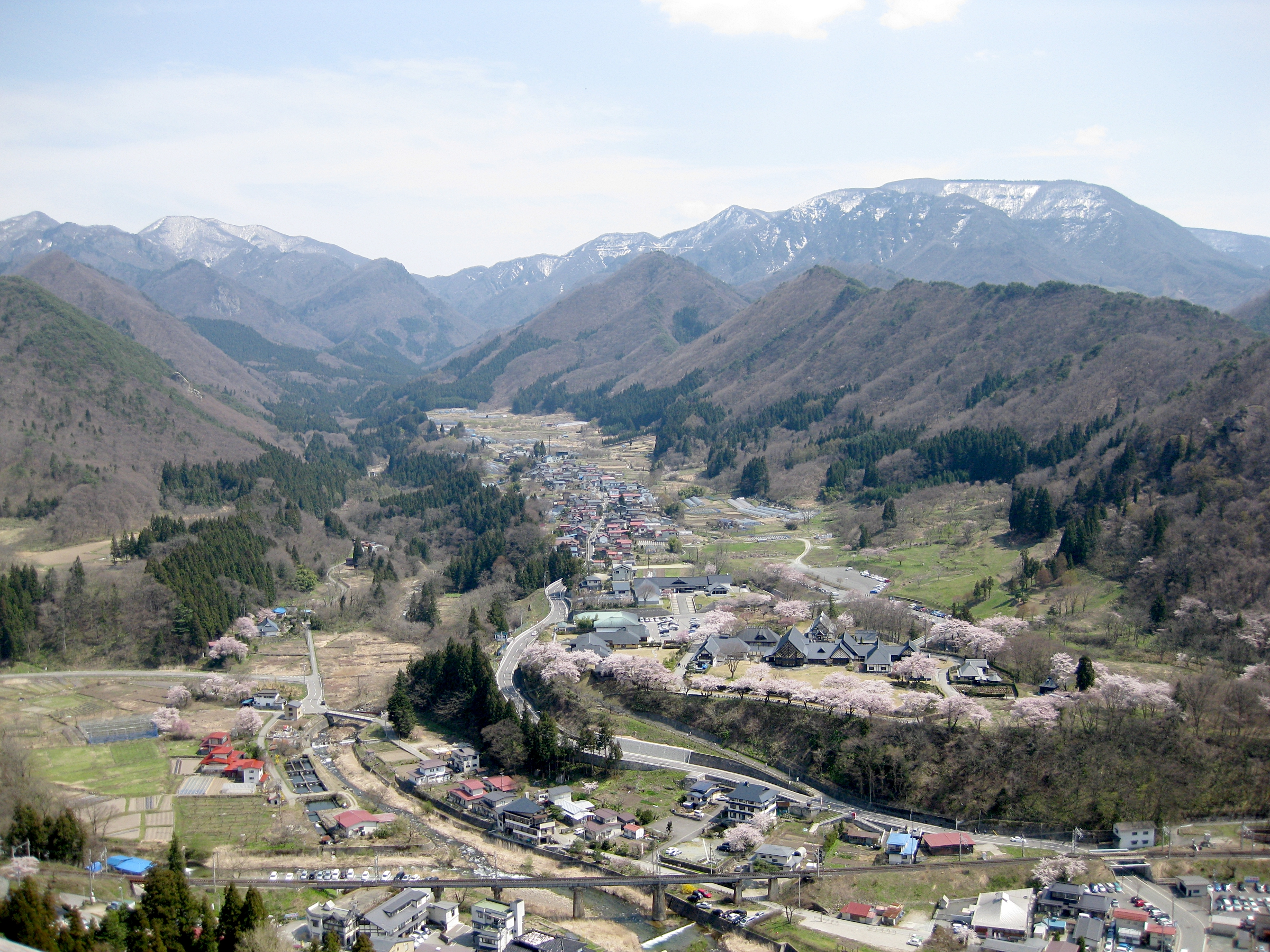 View of the town of Yamadera from the temple. Yamagata, Japan.